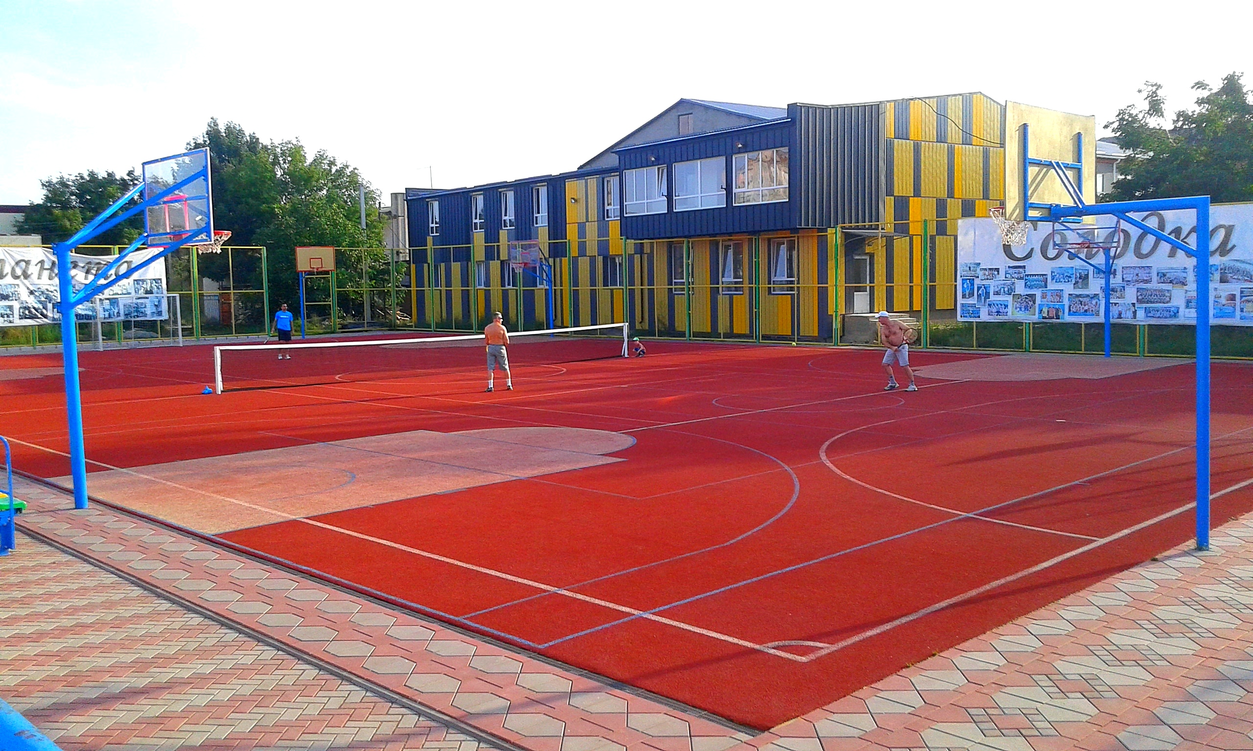 PLAYING TENNIS GAME IN CITY OF BAR REGION OF VINNYTSIA STATE OF UKRAINE 20170825